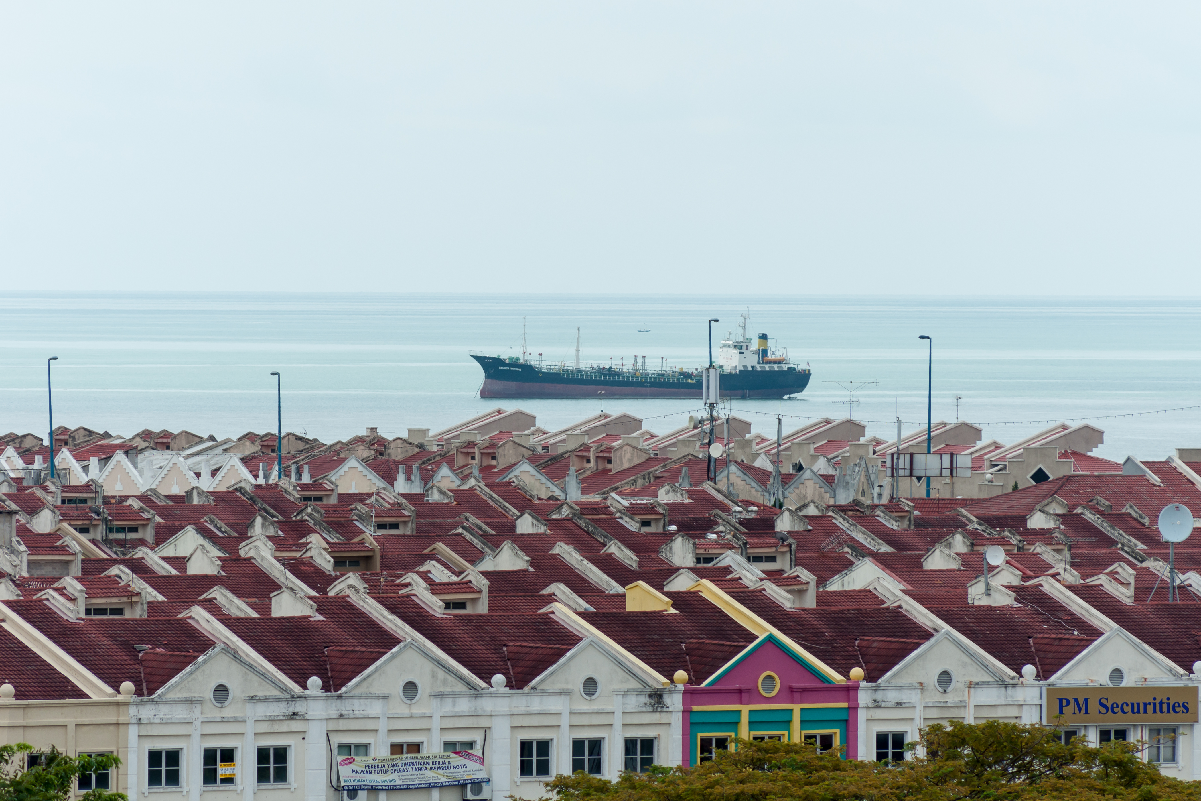 Melaka City, Malaysia: A ship anchoring in the Melaka Straits of Plaza Makhota Quarter in Melaka